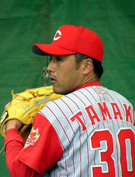 Shigeo Tamaki, pitcher of the Hiroshima Toyo Carp, at Nichinan Tempuku Baseball Stadium.